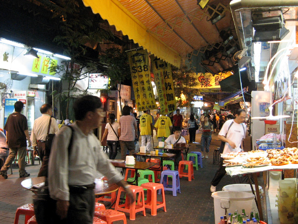 I took this photo